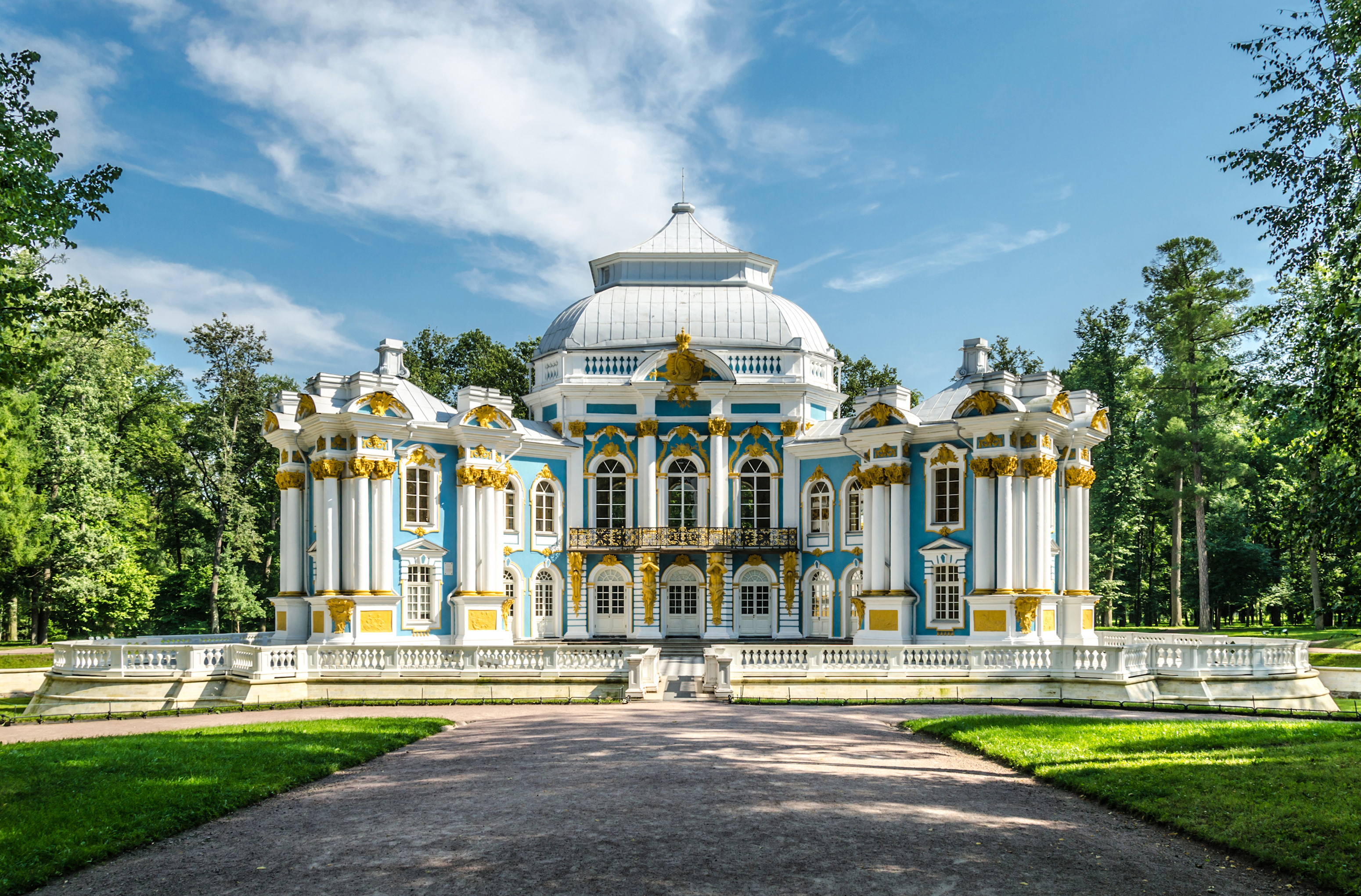 Hermitage pavilion in Catherine park of Tsarskoe Selo, Saint Petersburg